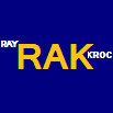 Source: I, the Silent Wind of Doom made this picture on MSPaint to serve as a retired number on the San Diego Padres page.